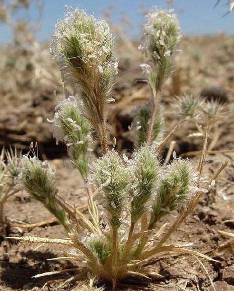 Orcuttia viscida — Sacramento Orcutt grass. Endemic bunchgrass of Sacramento County, in the Central Valley of California. USFWS photo